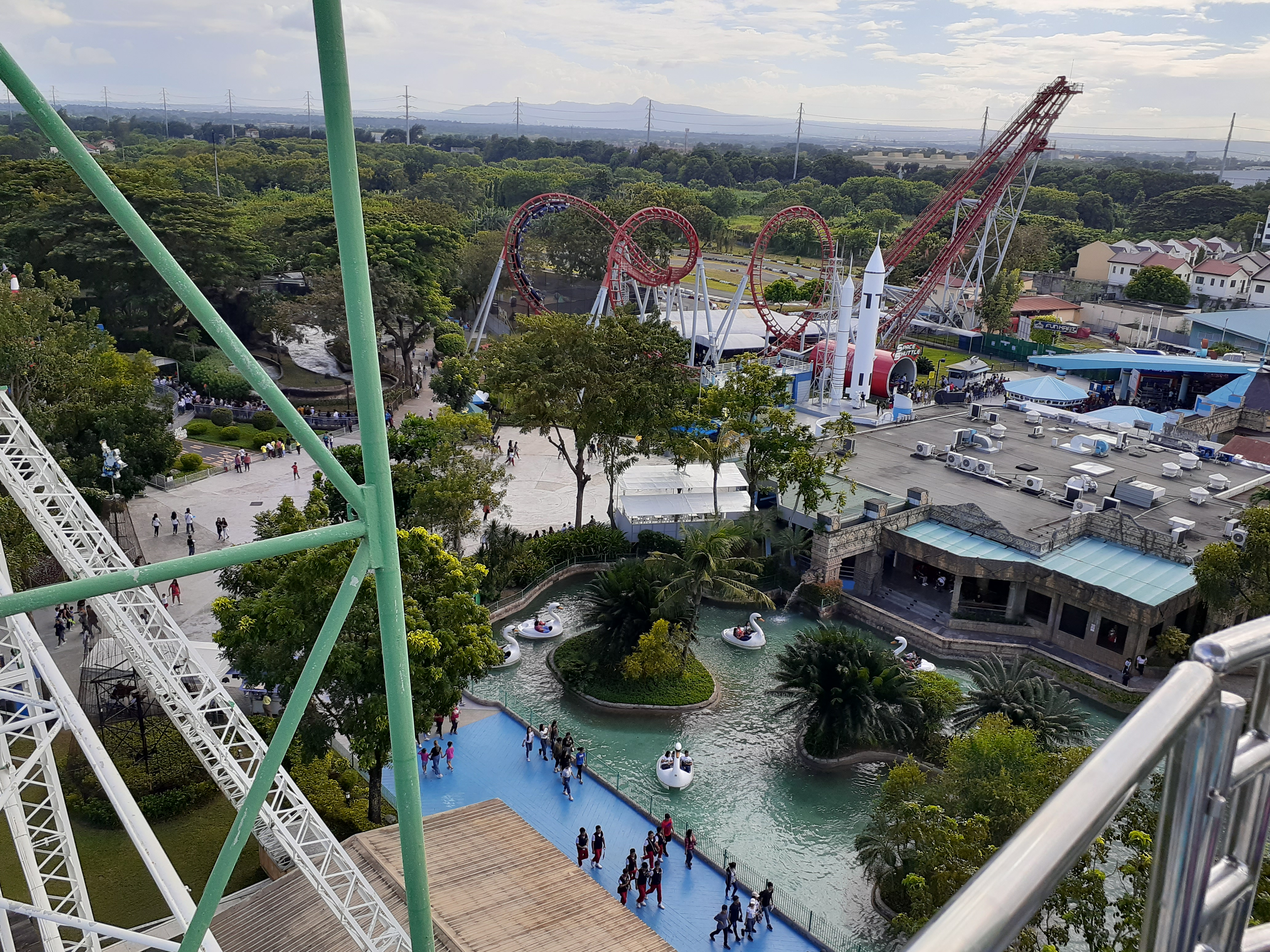 Overview of the Enchanted Kingdom (EK) from the Wheel of Fate ferris wheel